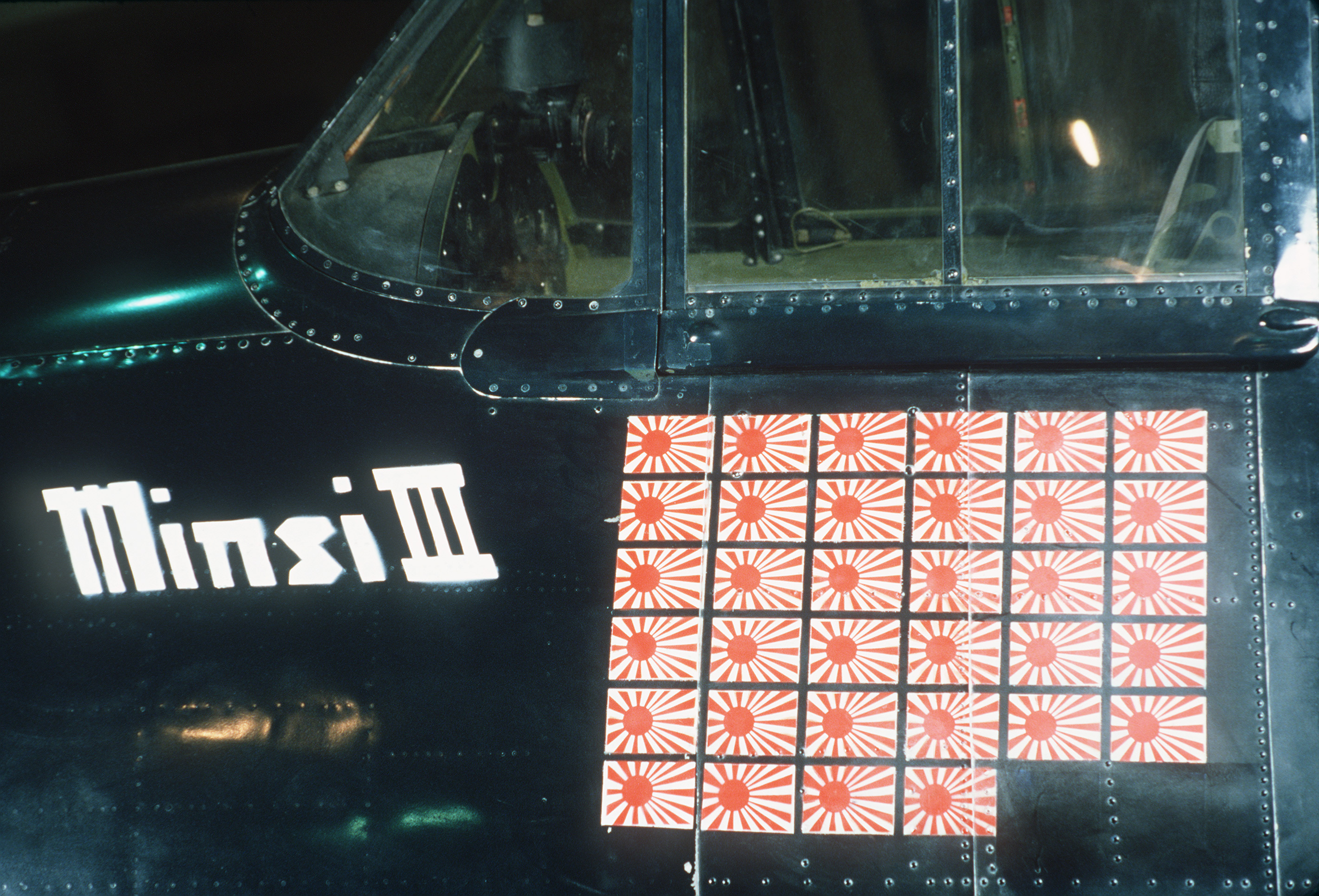 Thirty-four Japanese flags are painted on the fuselage of a World War II F6F Hellcat on display at the US Naval Aviation Museum. The flags represent the number of aerial victories by Commander David S. McCampbell, the leading fighter ace of the Navy and Marine Corps. All Hands - April 1985.